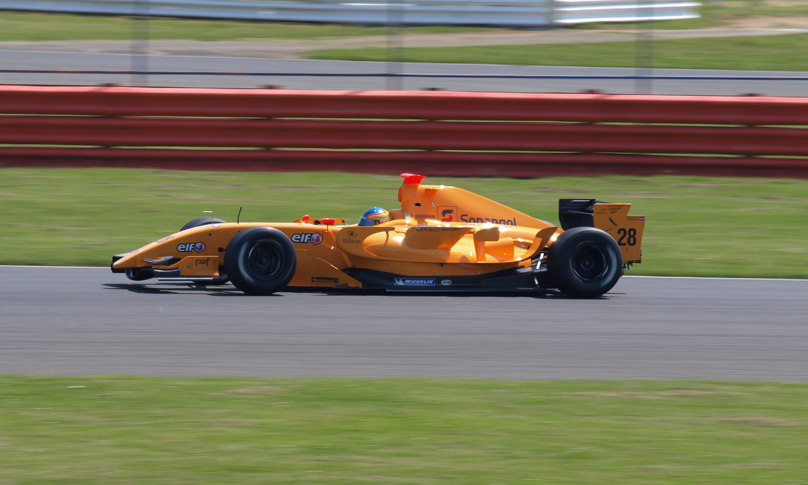 Esteban Guerrieri driving for Ultimate Signature at the Silverstone round of the 2008 World Series by Renault season.